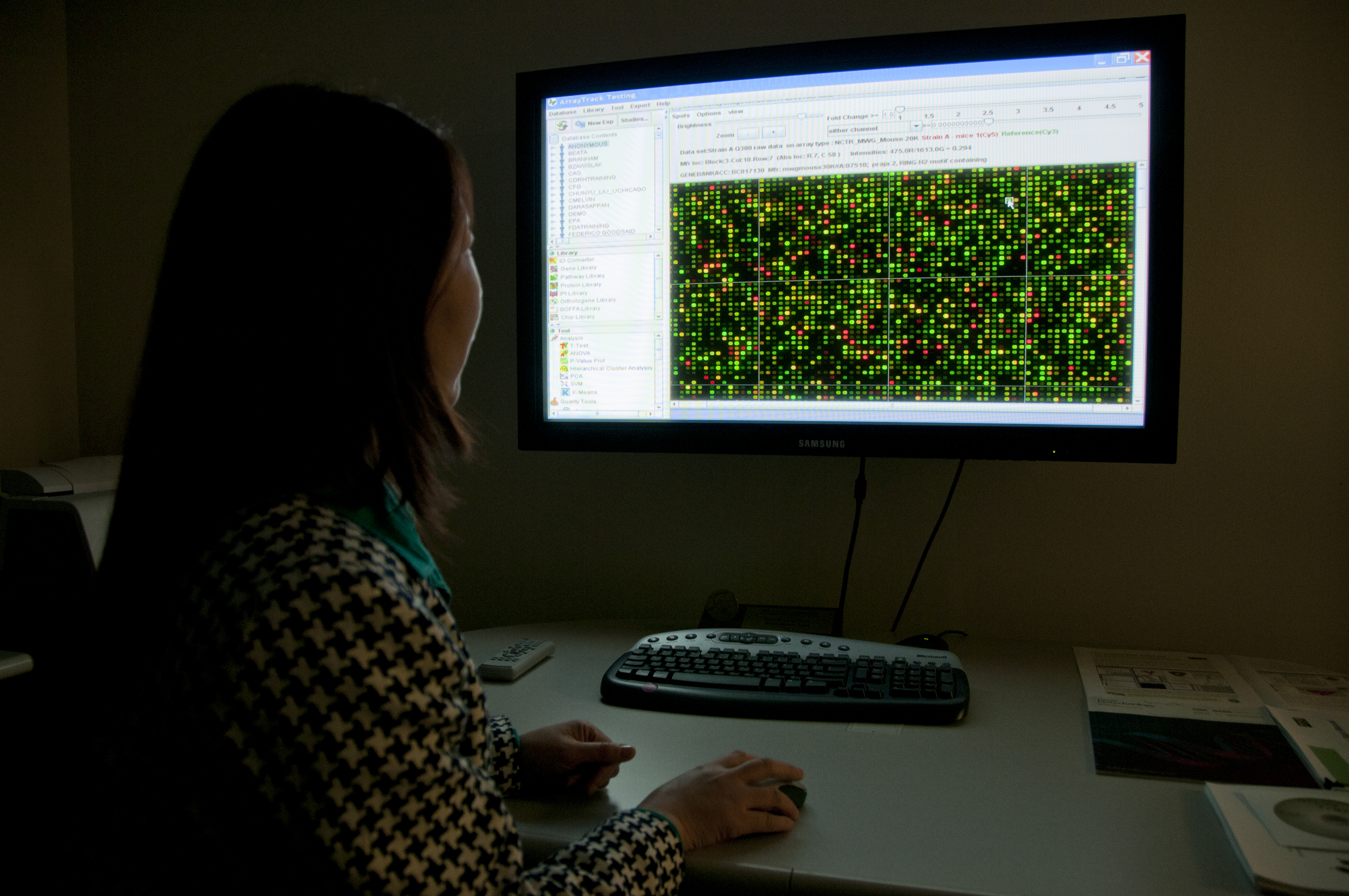 NCTR scientist analyzing microarray results to measure and assess the level of genes found in a tissue sample. The National Center for Toxicological Research (NCTR) is FDA's internationally recognized research center. The unique scientific research expertise of NCTR is critical in supporting FDA product centers and their regulatory science roles. For more about NCTR, read the Consumer Update at FDA photo by Michael J. Ermarth